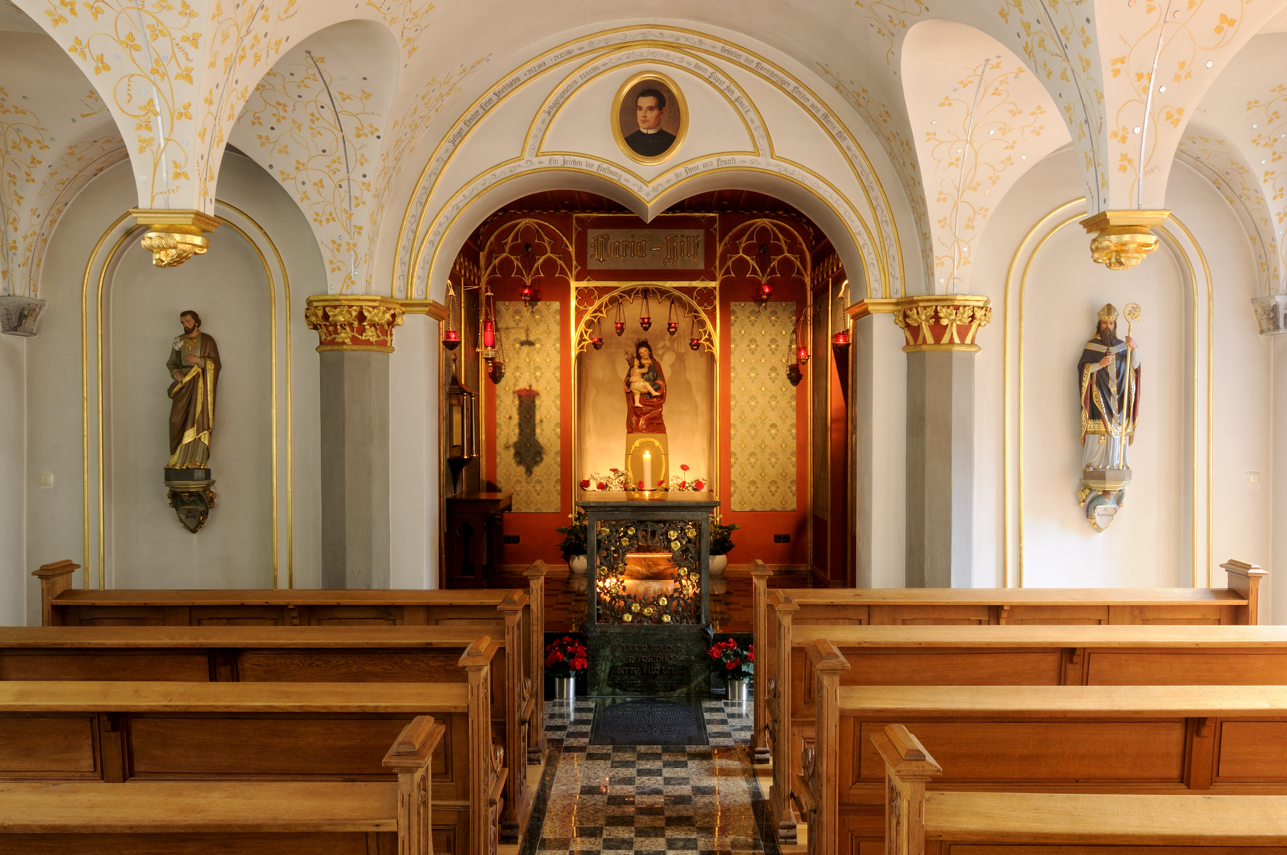 Mary-Help-Chapel in Trier, inside